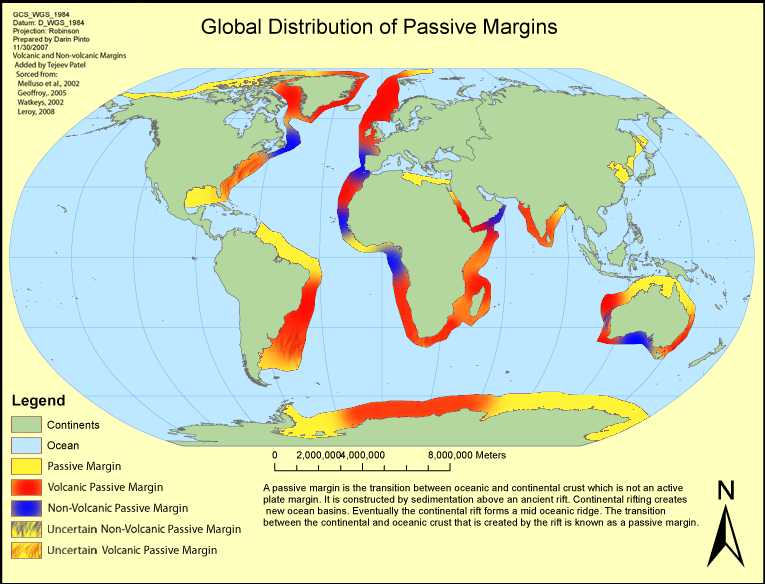 Global Distribution This is a map that will change as more data is gathered. As such, I still have the original file and can change it to contain any new data. If you have any such data, please say as much on my discussion page [Edit:If there are any changes needed, please talk --Calandril (talk) 09:00, 22 June 2011 (UTC)]. Include published sources newer than 2000. Iluziat (talk) 13:37, 10 February 2009 (UTC)